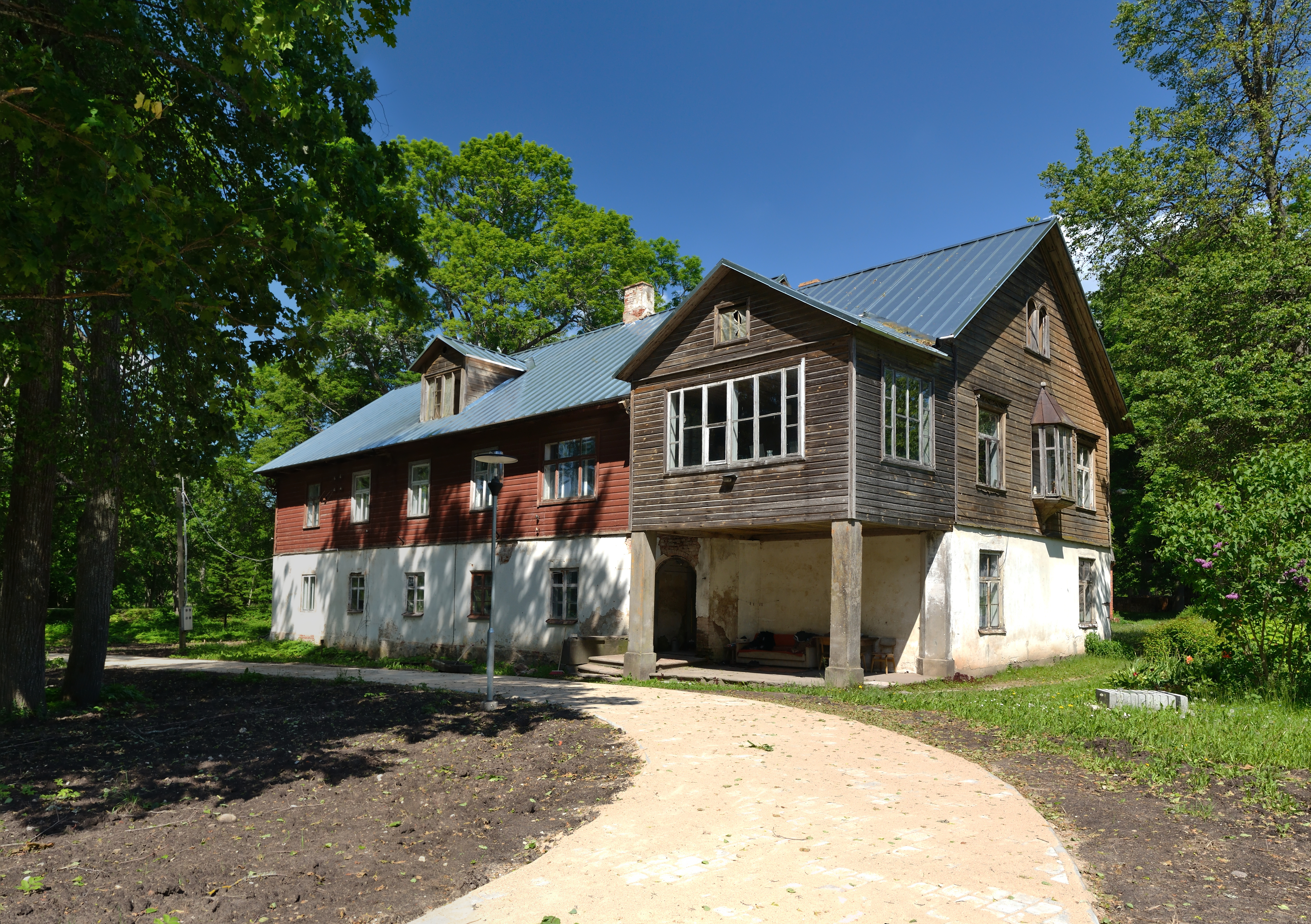 Pala manor main building